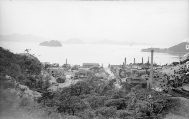 OKUNOSHIMA, JAPAN. THE CAMOUFLAGED BUILDING ON THE RIGHT WAS FORMERLY THE LEWISITE PLANT. ON THE LEFT IS THE PLANT WHICH WAS ORIGINALLY USED TO MANUFACTURE DYPHENYLCYNARSINE. IN 1942 THIS WAS CONVERTED TO THE PRODUCTION OF DI-NITRO NAPTHALENE AND P.E.T.N., BOTH HIGH EXPLOSIVES. THIS IS PART OF OPERATION LEWISITE TO REMOVE AND DESTROY POISON GAS (MAINLY MUSTARD AND LEWISITE) FROM THE TOKYO 2ND ARMY ARSENAL.